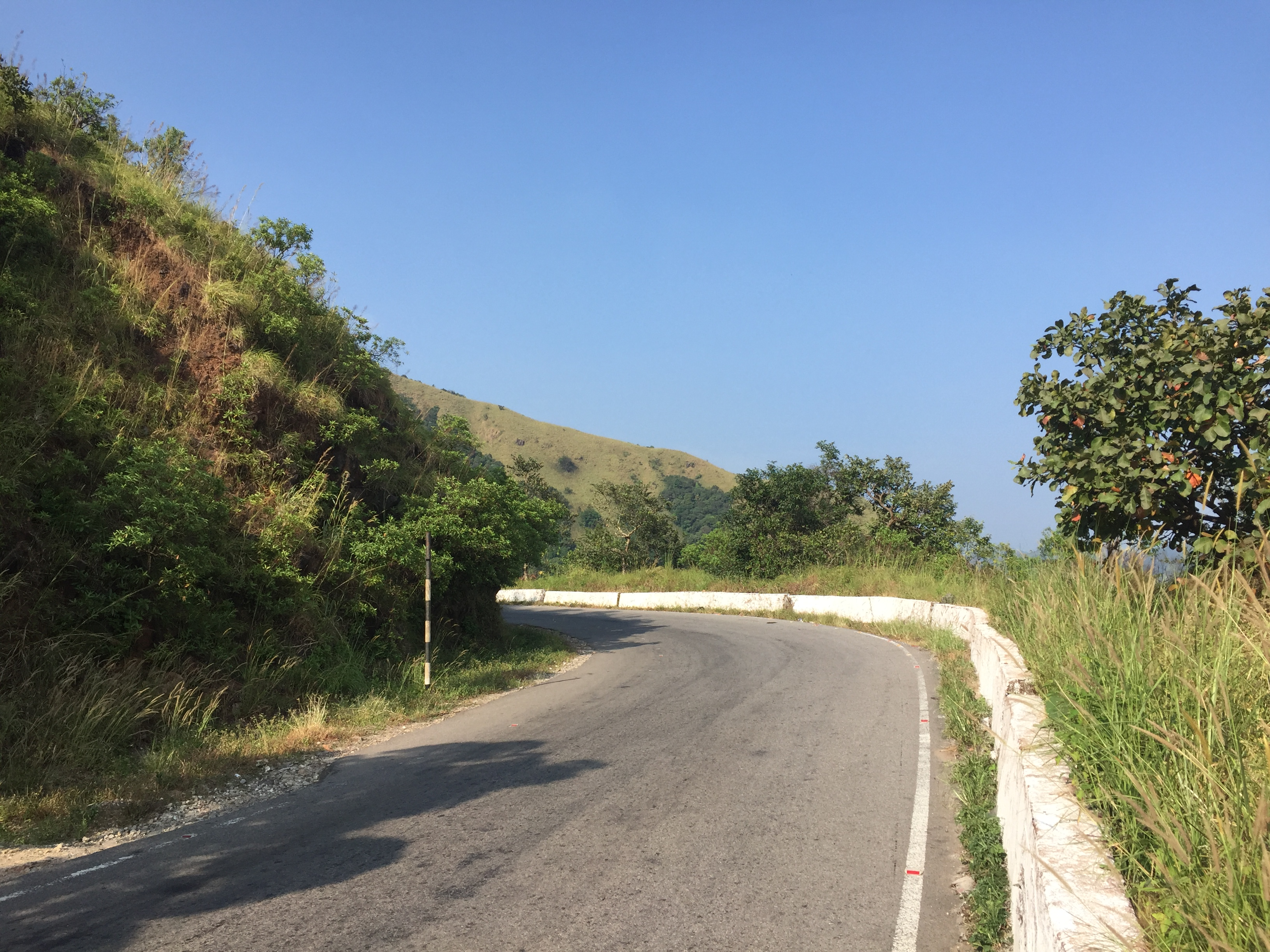 Dakshina Kannada mountain pass, western ghat ‘chola’ forest